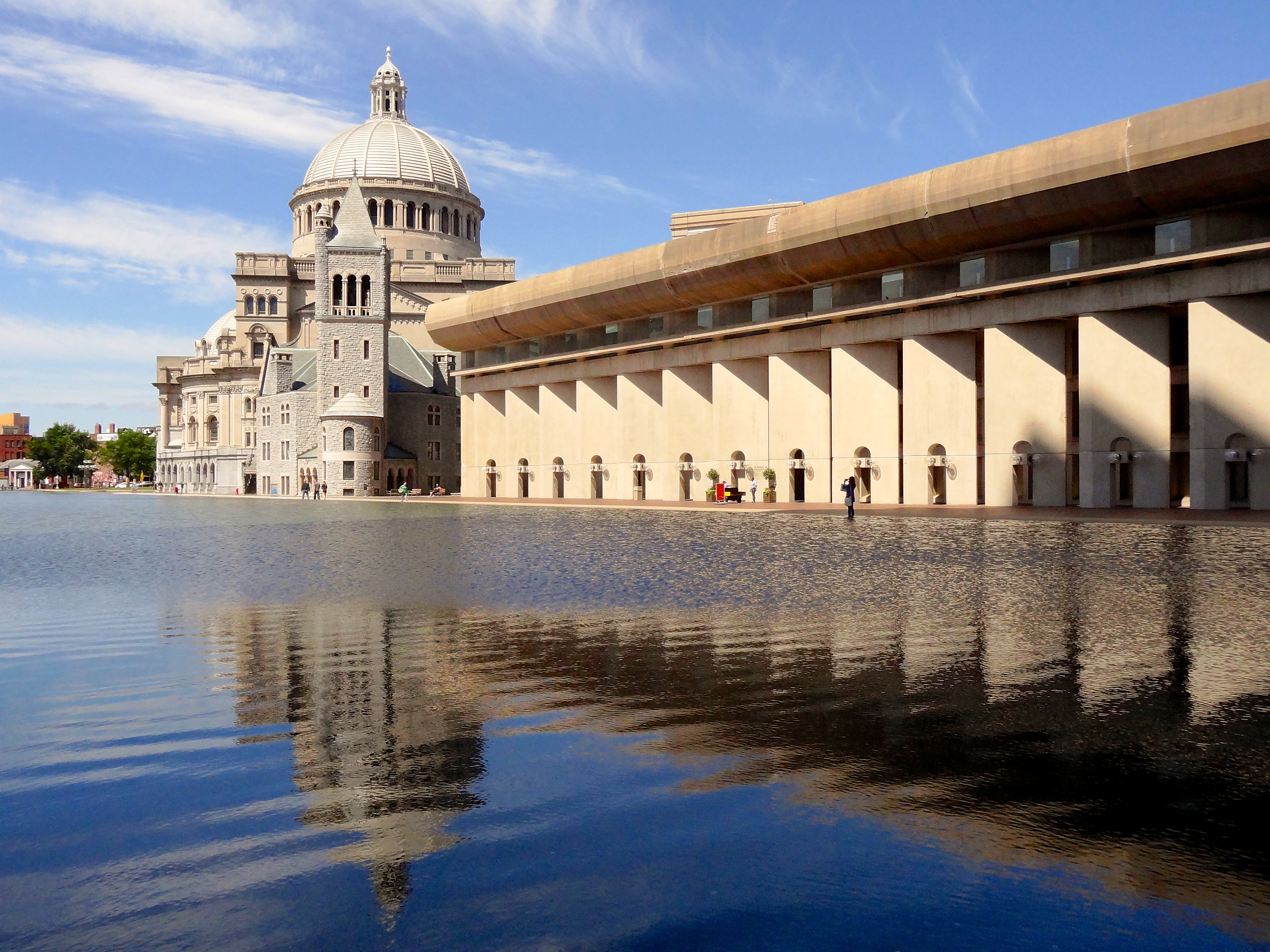 First Church of Christ Scientist, Boston, Massachusetts. The Mother Church is in the background. The Colonnade Building and Reflection Pool (1973) were designed by Araldo Cossutta.